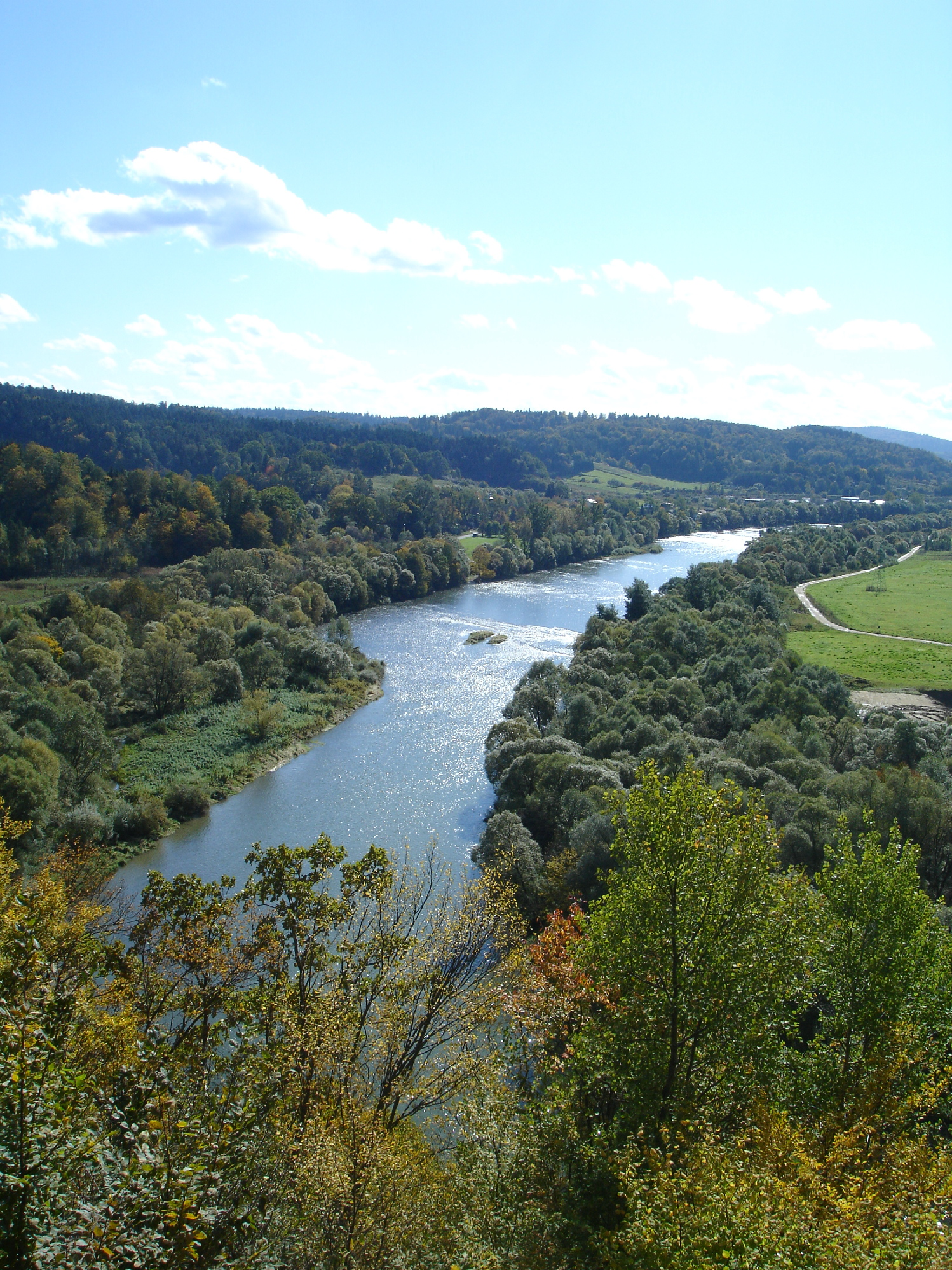 the San Valley as seen from Sobień Castle